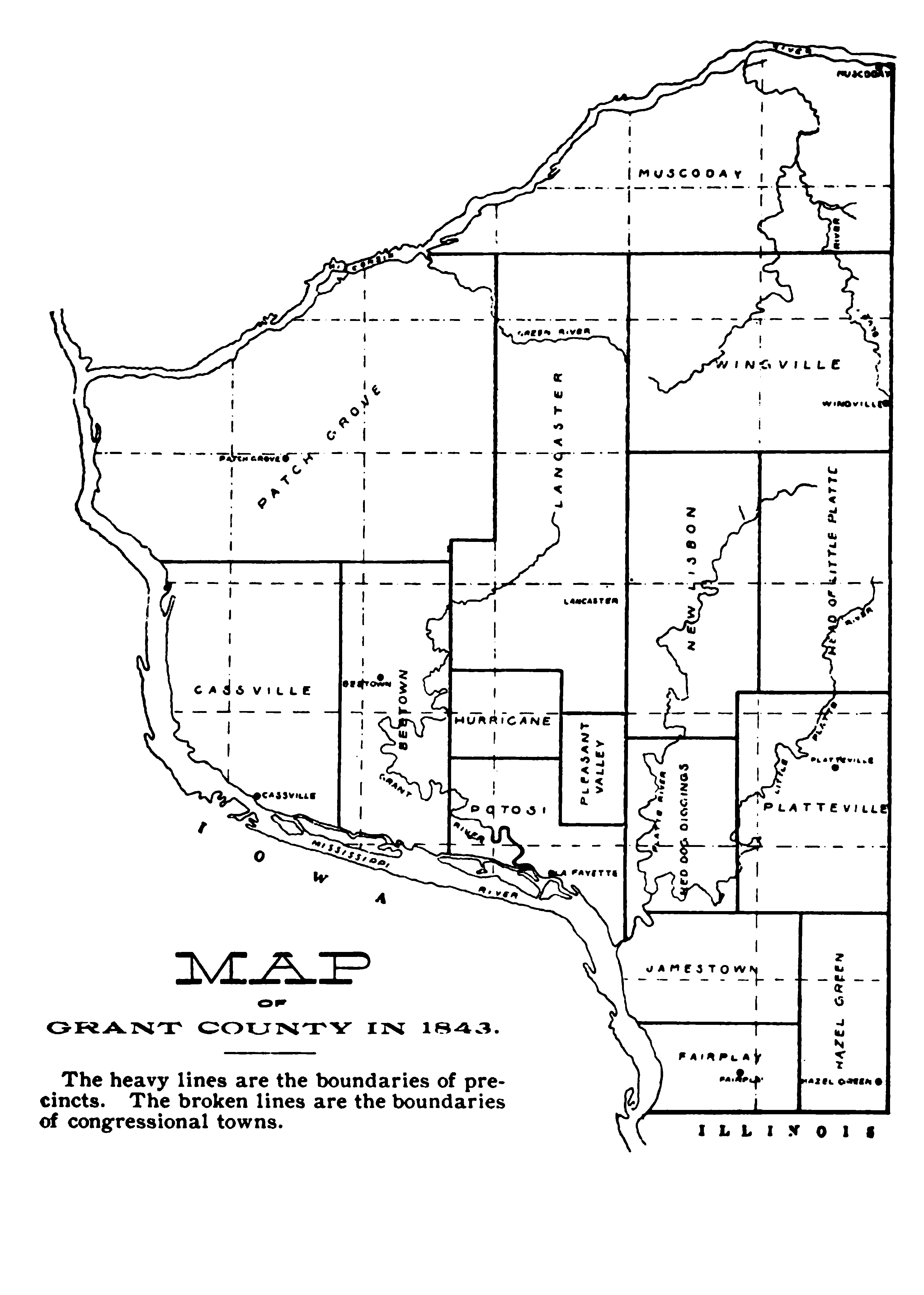 Map with the names of the civil divisions ("precincts") of Grant County, Wisconsin in 1848, at the time of Wisconsin's statehood; as well as some cities and civil townships ("congressional towns")